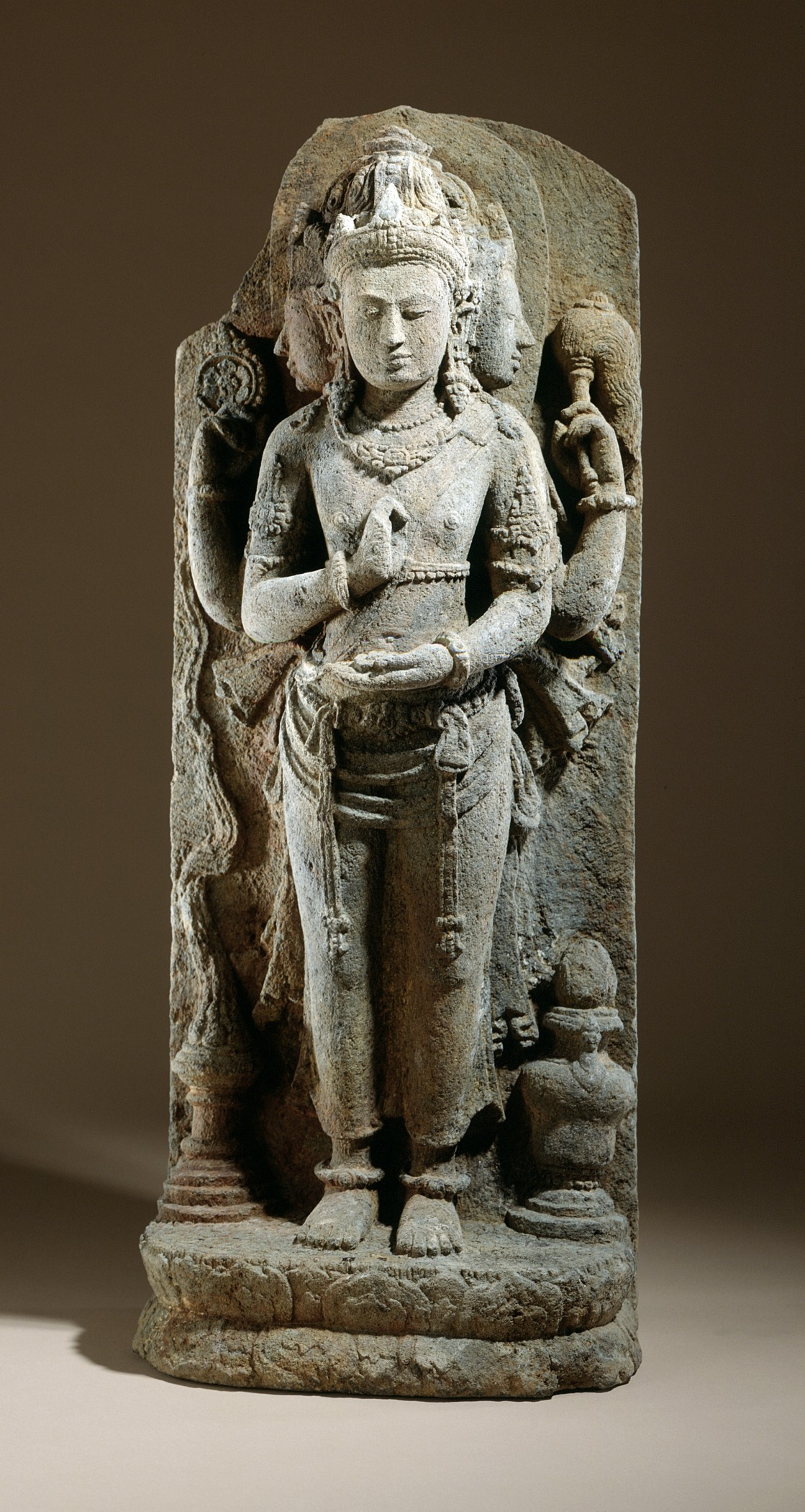 Indonesia, Central Java, 9th century Sculpture Volcanic stone (andesite) Gift of the 2000 Collectors Committee (M.2000.30) South and Southeast Asian Art